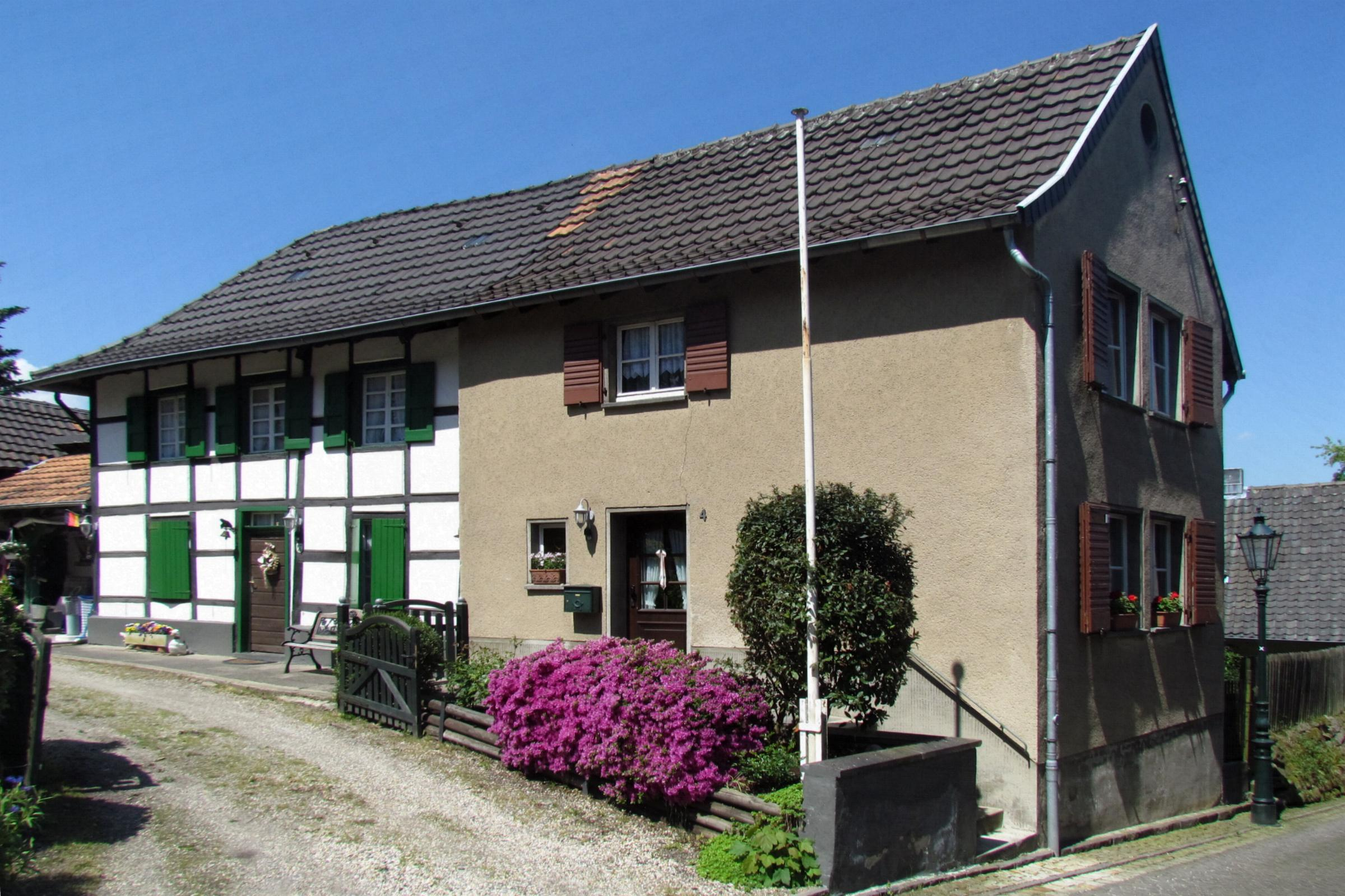 This is a photograph of an architectural monument.It is on the list of cultural monuments of Korschenbroich